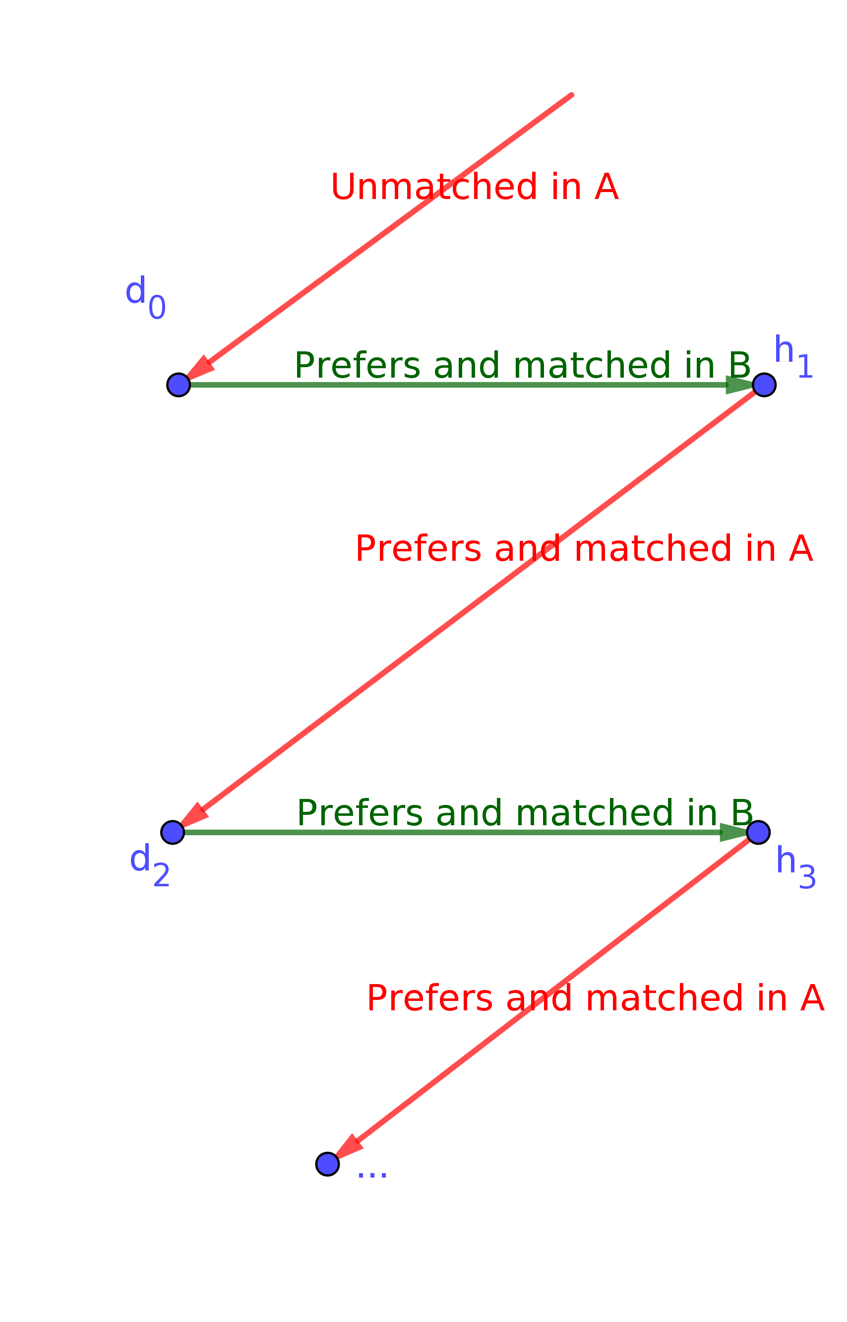 Illustration of proof of rural hospitals theorem